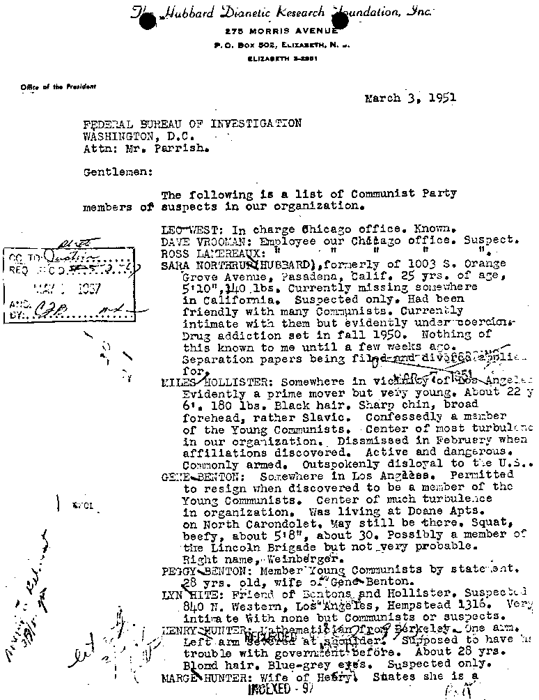 Letter of denunciation sent by L. Ron Hubbard to the FBI.